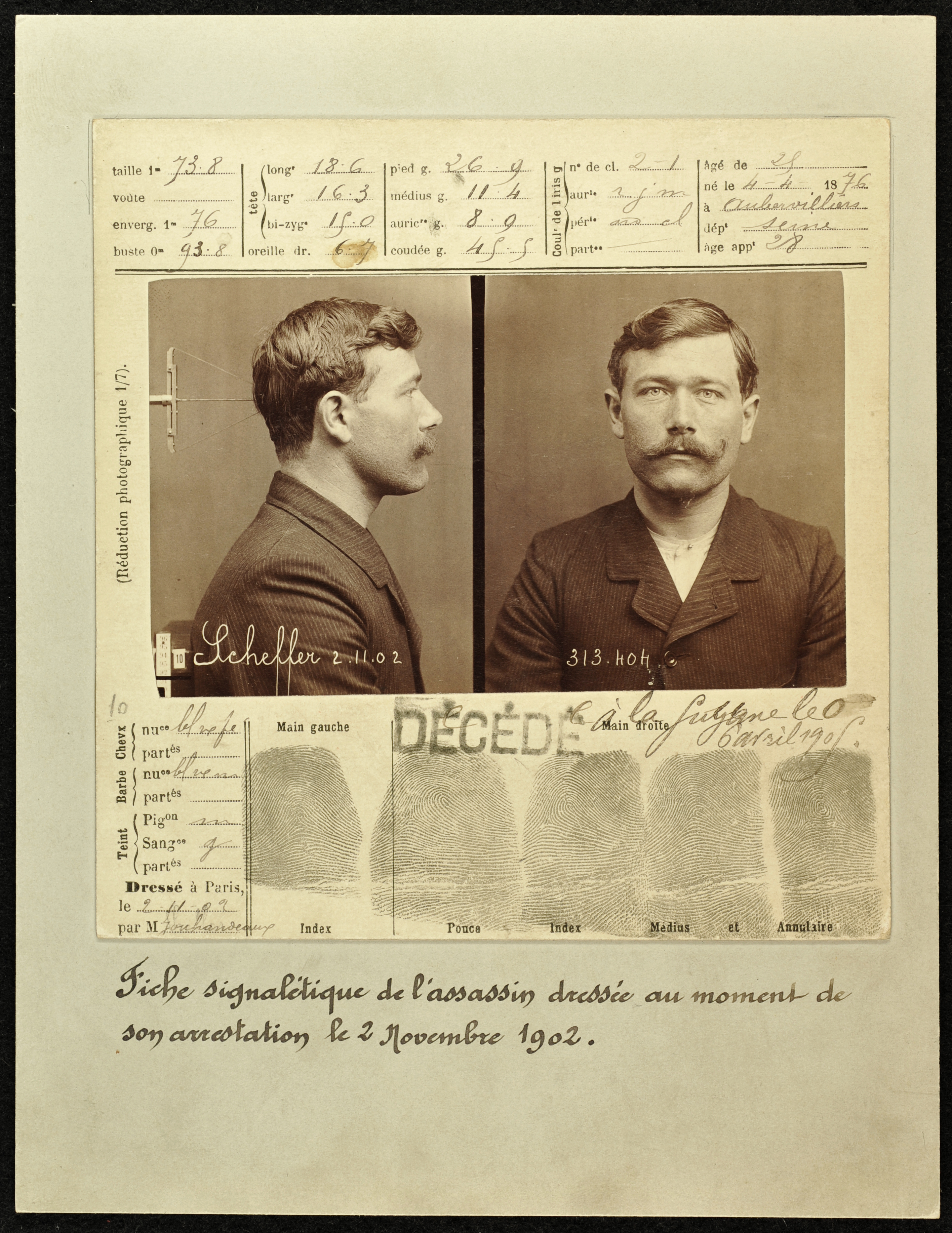 The second anthropometric profile of Henri-Léon Scheffer, a french criminal